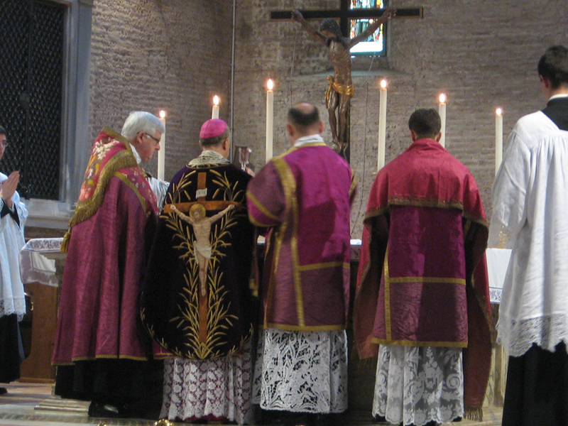 Tridentine High Mass - Offertory